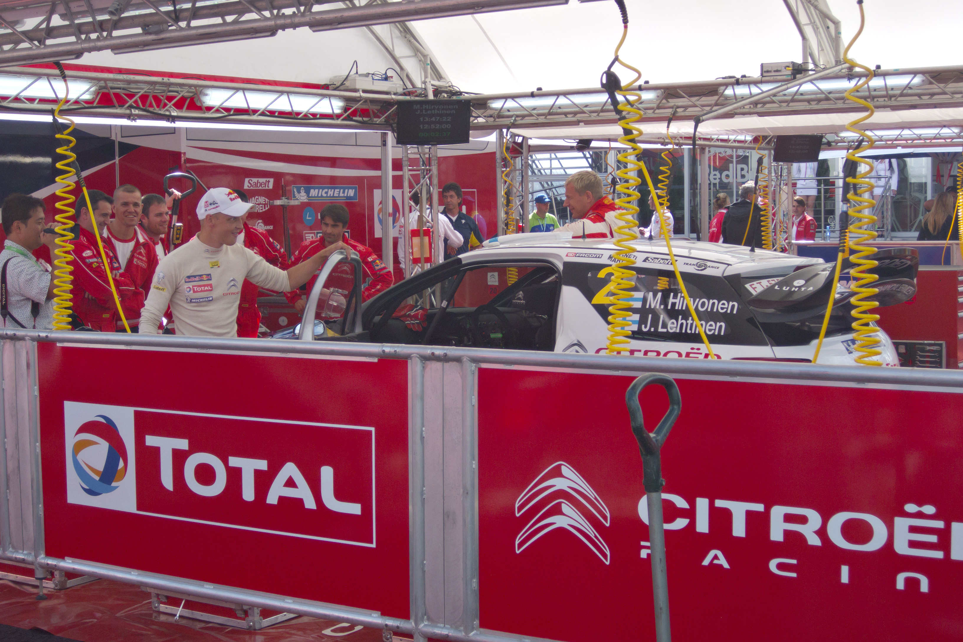 Action from the start of the 2012 Rally Finland.